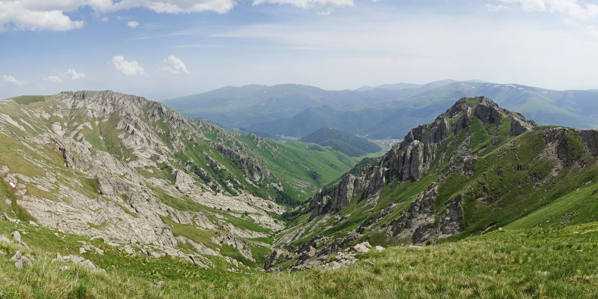 Mount in Armenia - Artavaz